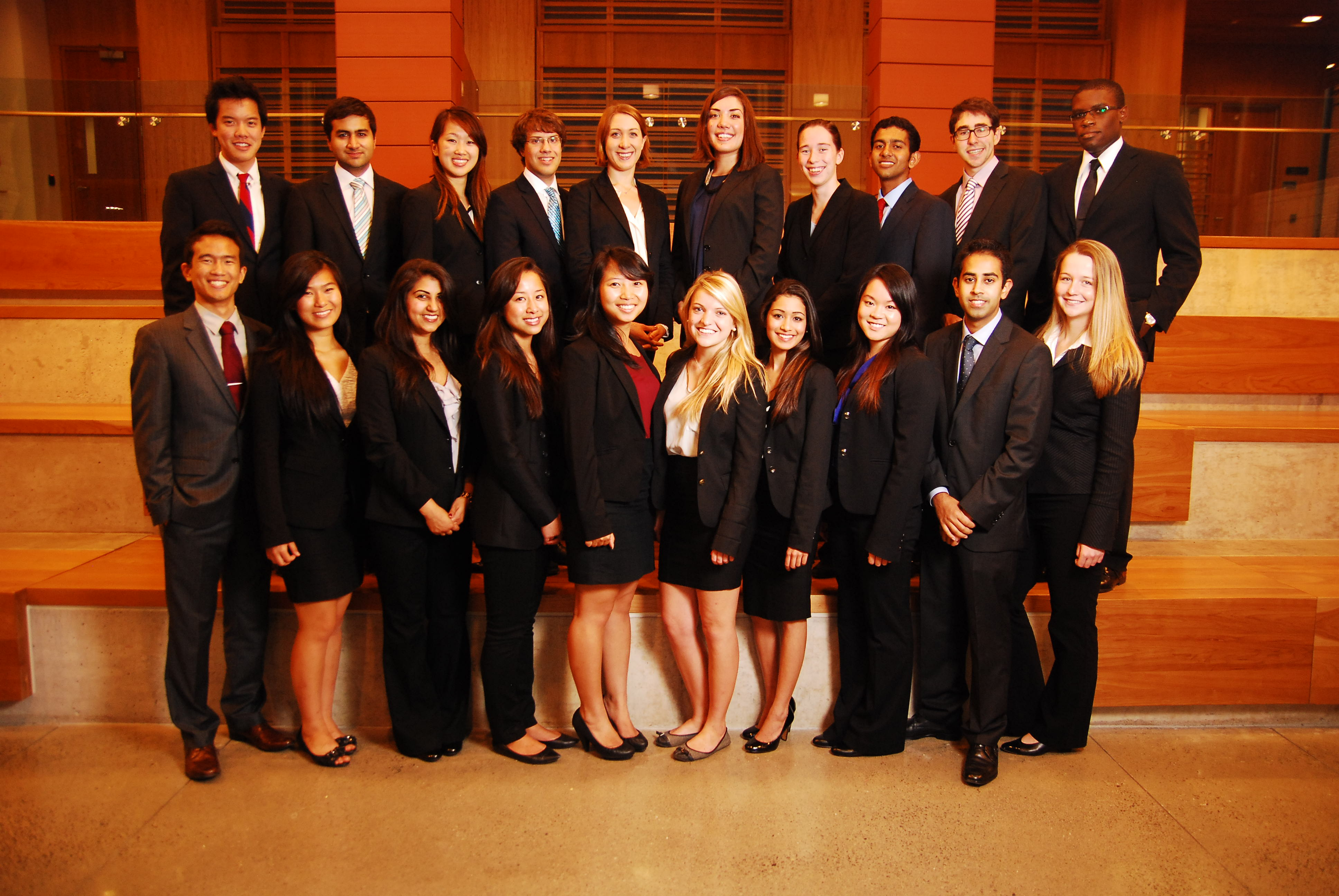 A member of the executive team has approved the distribution of the photo for promotional use.